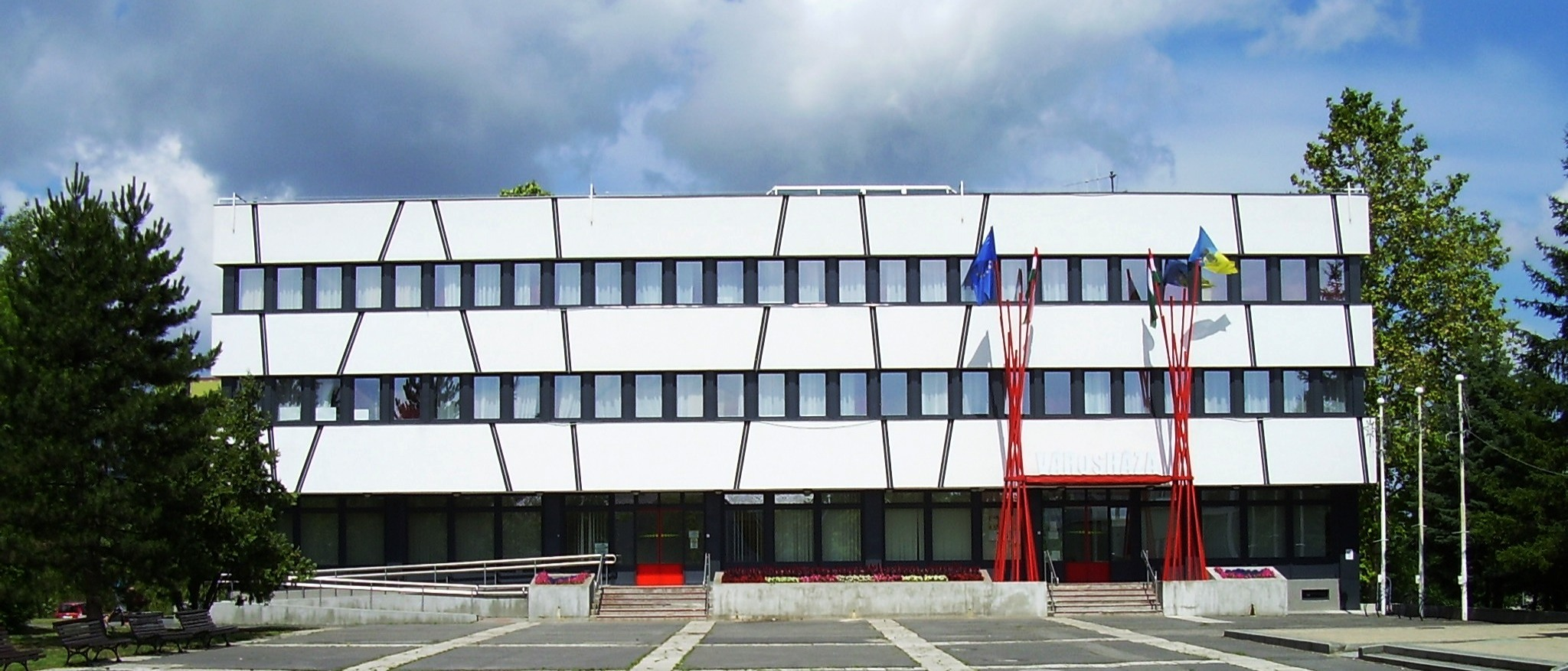 Mayor’s office in Kazincbarcika